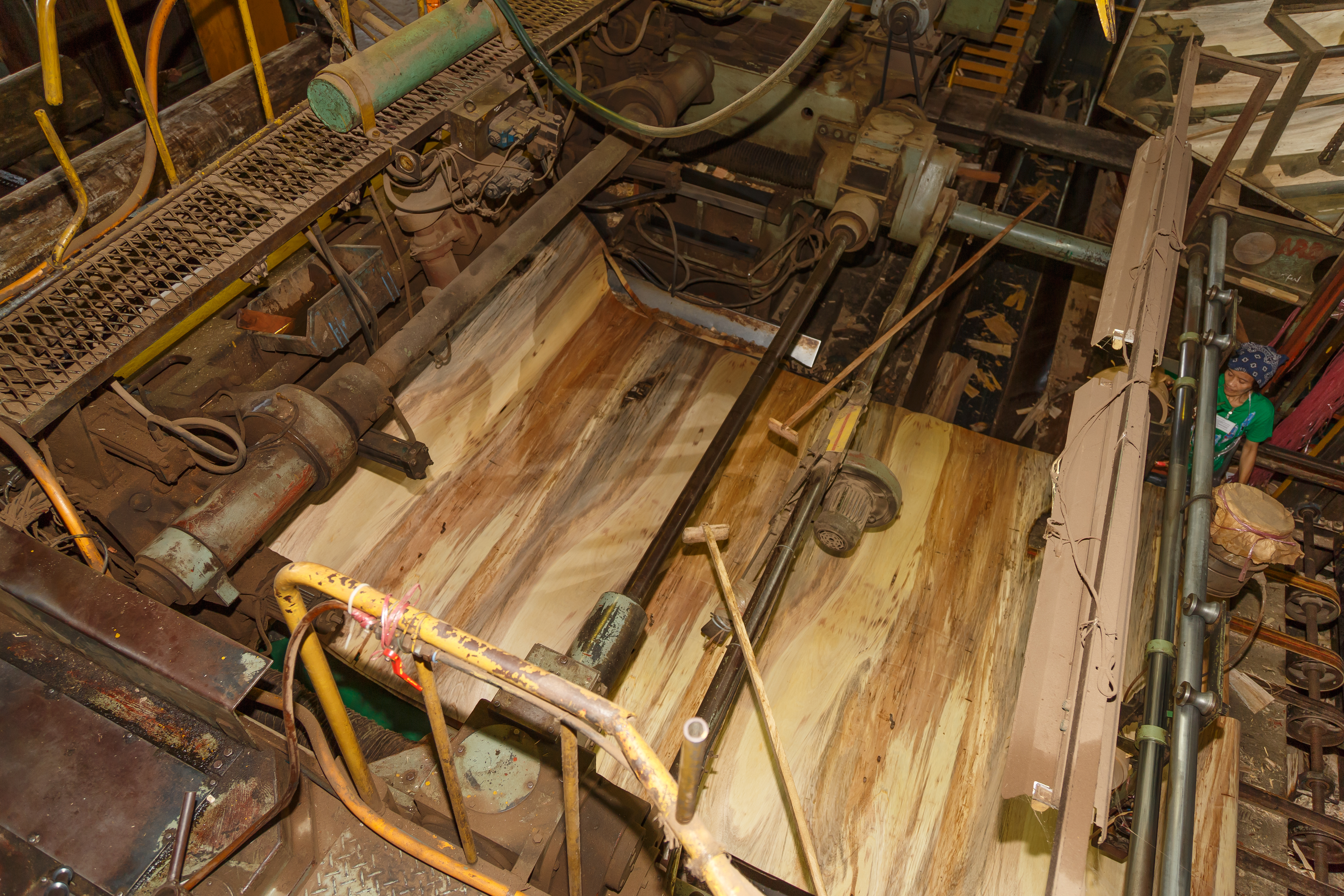 Sandakan, Sabah: Plywood Factory; The veneer outlet of the TAIHEI Veneer Peeling Lathe